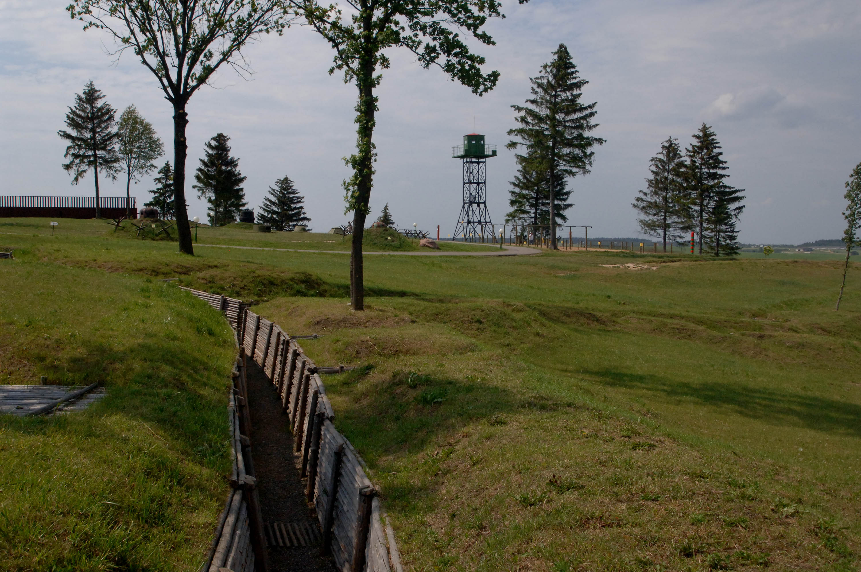 THE STALIN LINE WAS THE DIVIDER BETWEEN POLAND AND RUSSIA BEFORE THE GERMAN RUSSIAN AGREEMENT WHICH DIVIDED POLAND BETWEEN THE TWO COUNTRIES